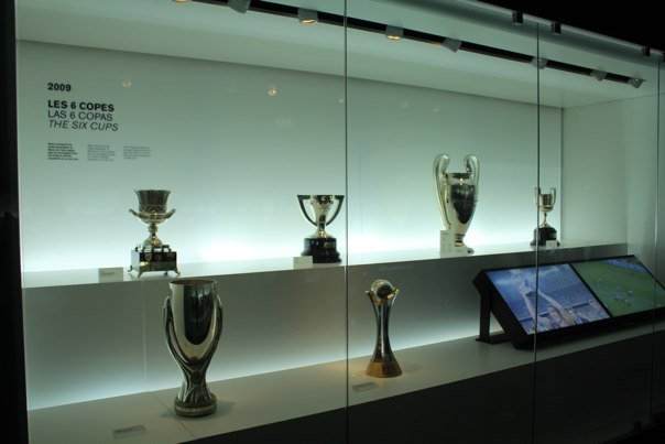 Las 6 copas de F.C. Barcelona en 2008-2010